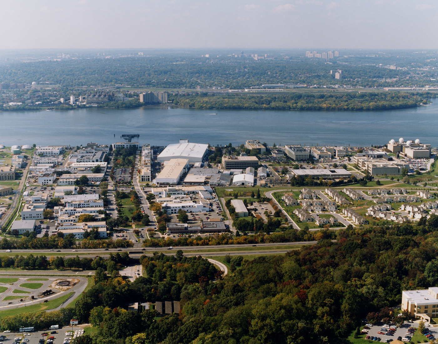 Campus of the U. S. Naval Research Laboratory in 2001, view from the east.